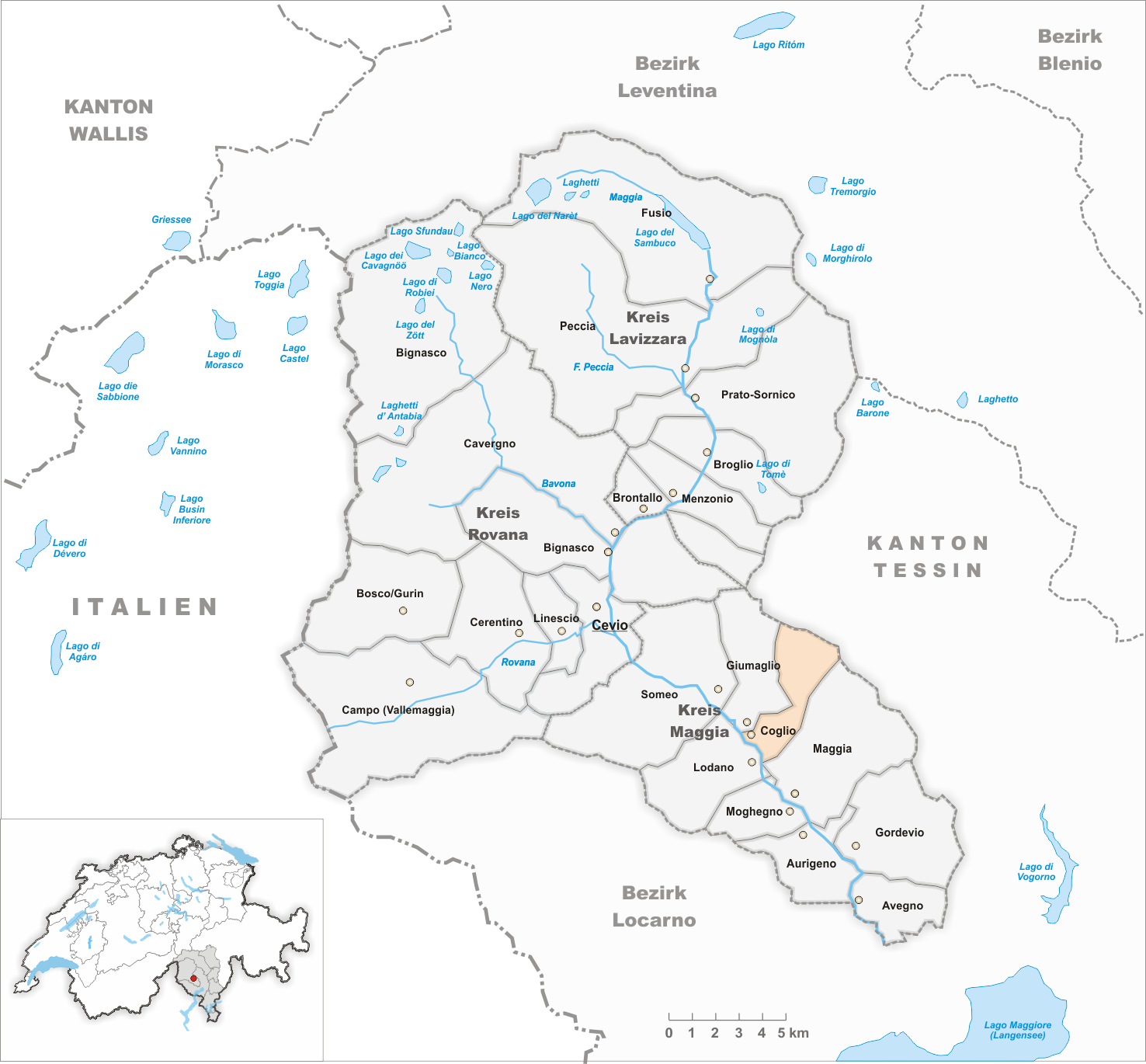 Municipality Coglio